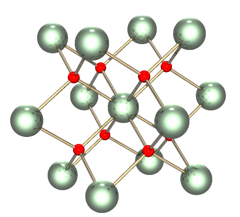 Lattice of uranium dioxide solid, drawn by cadmium using POVray using public domain data to drive the software used to write the pov file.